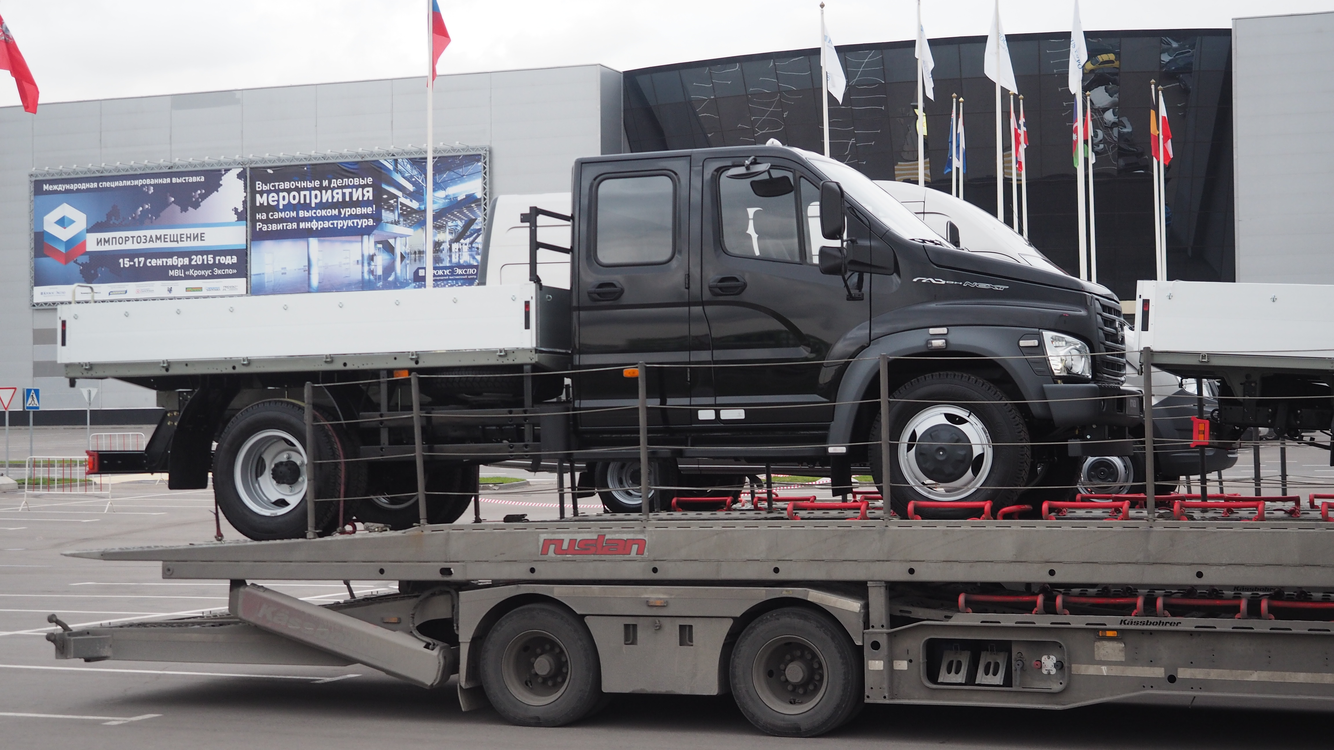 GAZ GAZon Next double cab